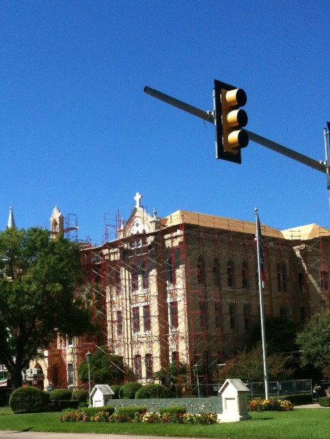 Roof going up on Main Building, Our Lady of the Lake University, San Antonio, Texas